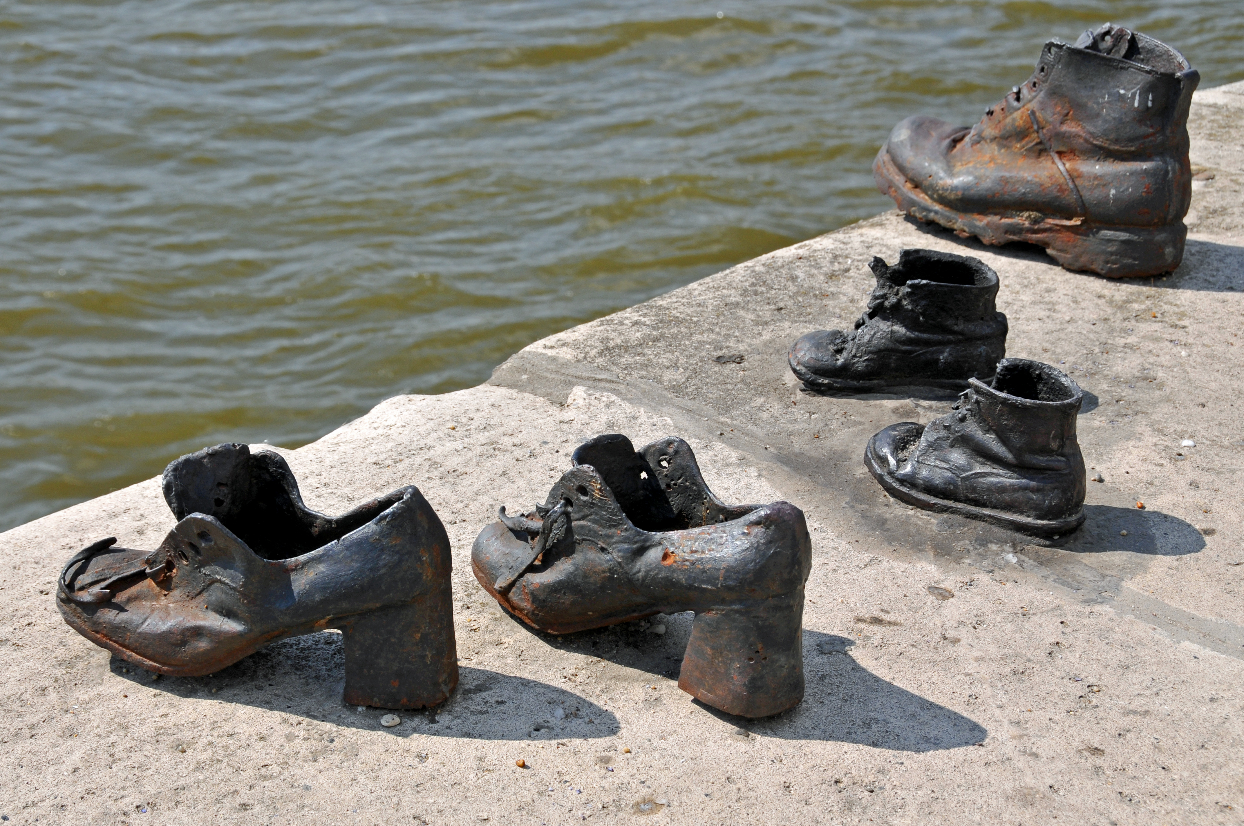 PLEASE, no multi invitations, glitters or self promotion in your comments, THEY WILL BE DELETED. My photos are FREE for anyone to use, just give me credit and it would be nice if you let me know, thanks - NONE OF MY PICTURES ARE HDR. Are your shoes here? If we do not remember the kind of things that happened here they maybe your shoes in the future. This picture really made me think that some hard working man along with his wife and child were slaughtered here, they were not soldiers but people like you and me. It accomplished nothing in the end, except maybe that we must remember to fight injustice and war. I am not Jewish, I am just a man who hates what people can do to others just because of their faith. The Shoes on the Danube Bank is a memorial on the bank of the Danube River in Budapest. It honors the Jews who were killed by fascist Arrow Cross militiamen in Budapest during World War II. They were ordered to take off their shoes, and were shot at the edge of the water so that their bodies fell into the river and were carried away. It represents their shoes left behind on the bank. The sculptor created sixty pairs of period-appropriate shoes out of iron. Between 20% and 40% of Greater Budapest's 250,000 Jewish inhabitants died through Nazi and Arrow Cross Party genocide during 1944 and early 1945.